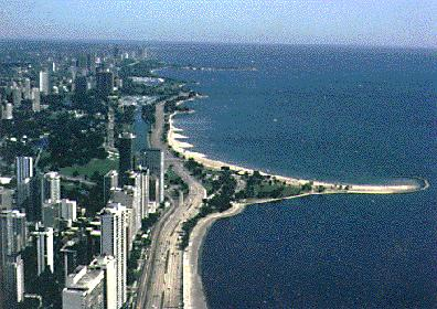 A Cuspate Foreland on the Chicago coastline, from the USGS site